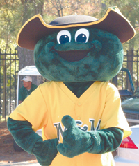 The former school mascot of the College of William & Mary in Williamsburg, Virginia, USA.